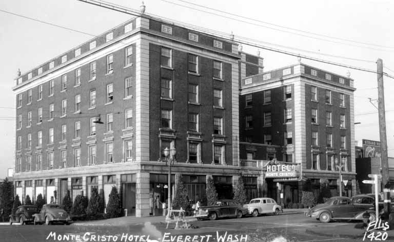 Monte Cristo Hotel, Everett, Washington, n.d. Photographer: Ellis, Clifford Subjects (LCSH): Monte Cristo Hotel (Everett, Wash.) Digital Collection: Washington Localities Collection Item Number: WAS1554 Persistent URL: Visit Special Collections page for information on ordering a copy. University of Washington Libraries. Digital Collections